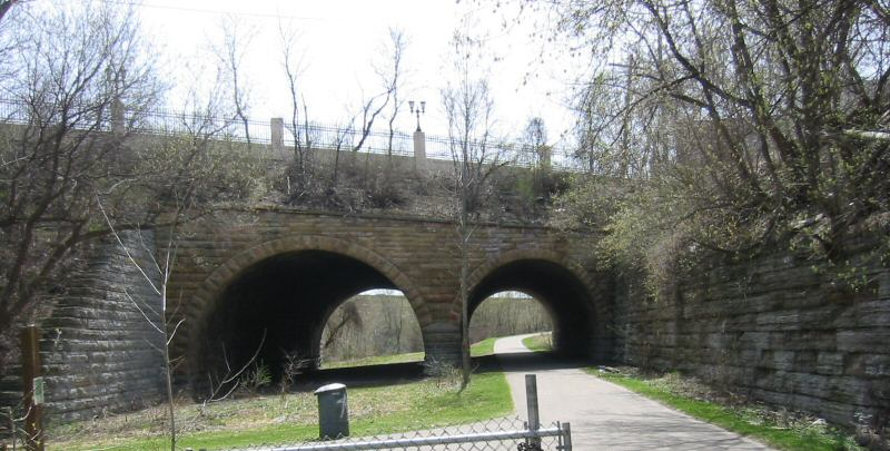 A view of the Seventh Street Improvement Arches from the north side, looking south. The asphalt trail is the Bruce Vento Regional Trail.